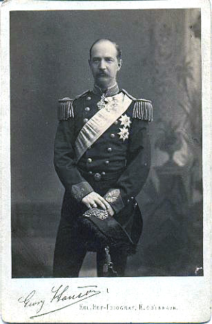 Georgios I, King of Greece (b.1845-d.1913)